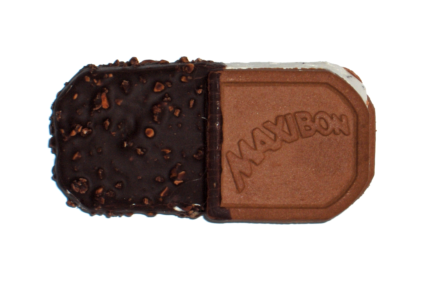 A Maxibon ice cream bought in Germany